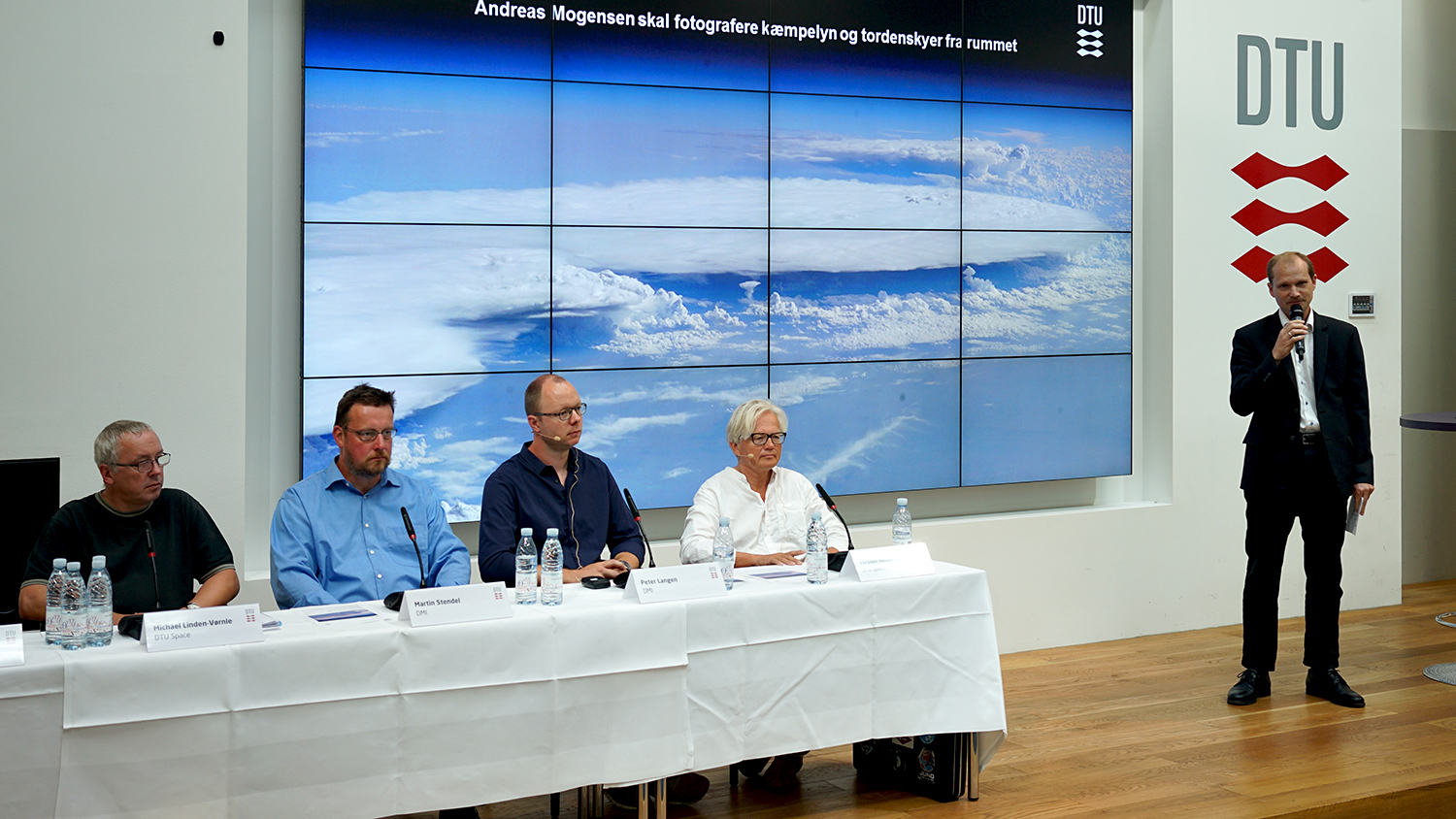 DTU Space - Press meeting at Technical University of Denmark (DTU) informing abouth Danish astronaut Andreas Mogensen and his mission on Sojuz TMA-18M to The International Space Station (ISS) with special focus on his photografic mission designed by DTU Space and Danish Meteorological Institute (DMI) to get further knowledge about Upper-atmospheric lightning - standing Kristian Pedersen (director of DTU Space) and in the panel (from left to right) Michael Linden-Vørnle (DTU Space), Martin Stendel (DMI), Peter Langen (DMI), and Torsten Neubert (DTU Space).